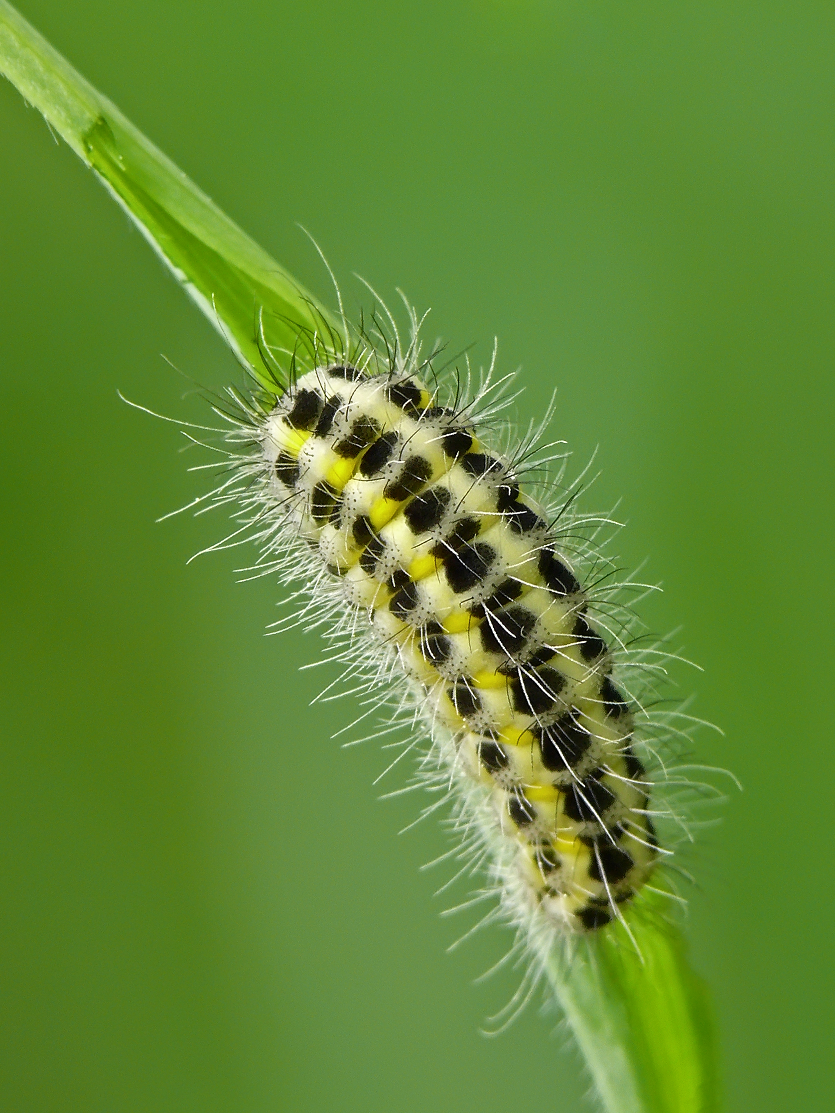 Young caterpillar of Narrow-bordered Five-spot Burnet (Zygaena lonicerae).